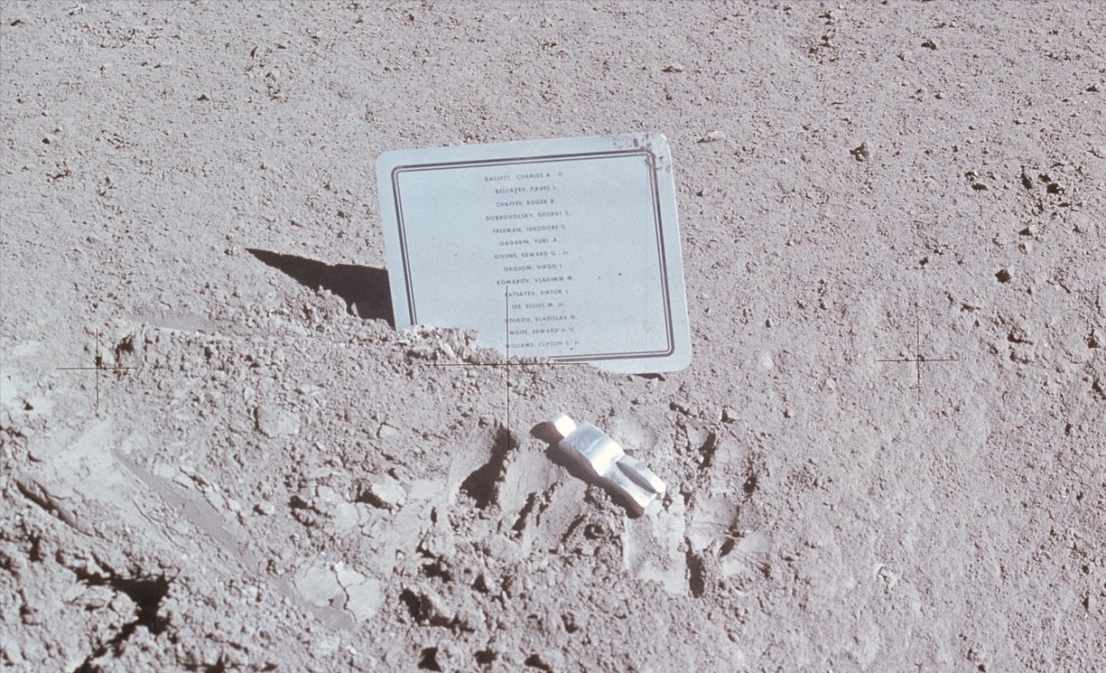 View of Commemorative plaque left on moon at Hadley-Apennine landing site. A close-up view of a commemorative plaque left on the Moon at the Hadley-Apennine landing site in memory of 14 NASA astronauts and USSR cosmonauts, now deceased. Their names are inscribed in alphabetical order on the plaque. The plaque was stuck in the lunar soil by Astronauts David R. Scott and James B. Irwin during their Apollo 15 lunar surface extravehicular activity. The tiny, man-like object represents the figure of a fallen astronaut/cosmonaut.